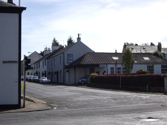 Gilmour Street. Eaglesham Cross looking along Gilmour Street. Kirkstyle, a single-storey cottage believed to be of seventeenth century origin is situated to the right of Cross Garage in the foreground. Links to other views of Gilmour Street 1484257 1484265.